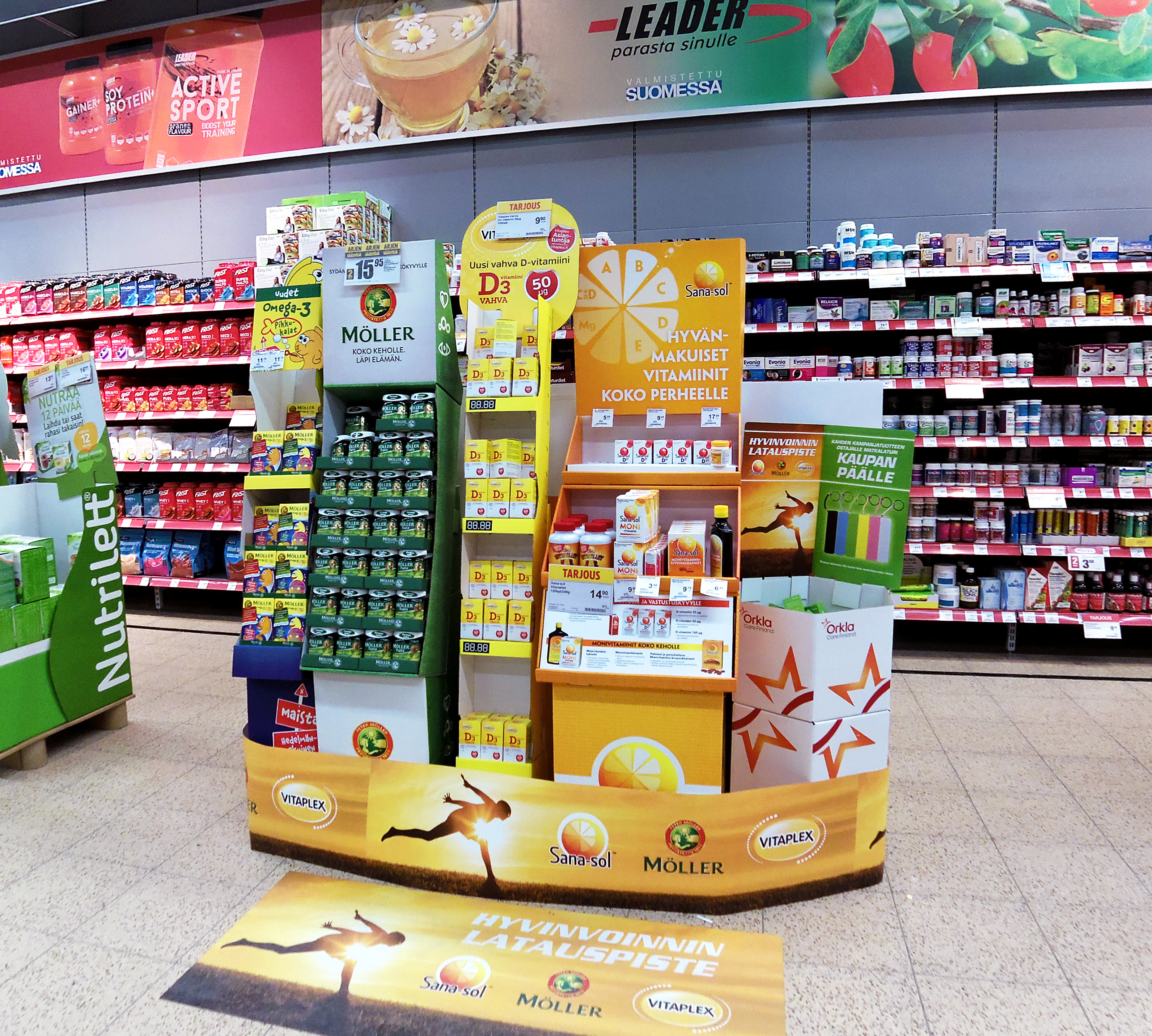 Food supplements in Citymarket, Jyväskylä.